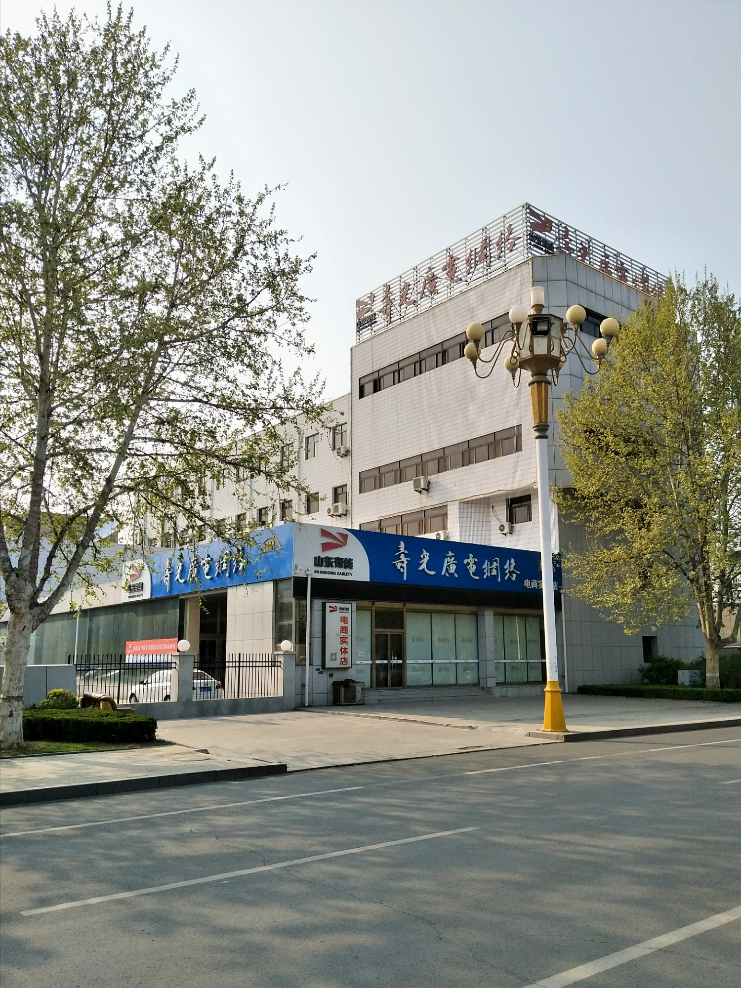 SGTV old building, now Shandong Cable TV Network Shouguang Branch building.